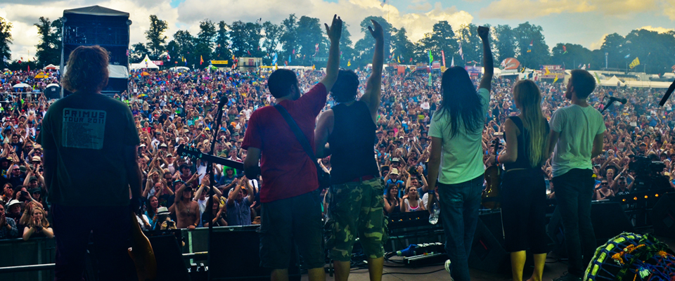 Blackbeard's Tea Party at the end of their performance at Fairport's Cropredy Convention, August 2014